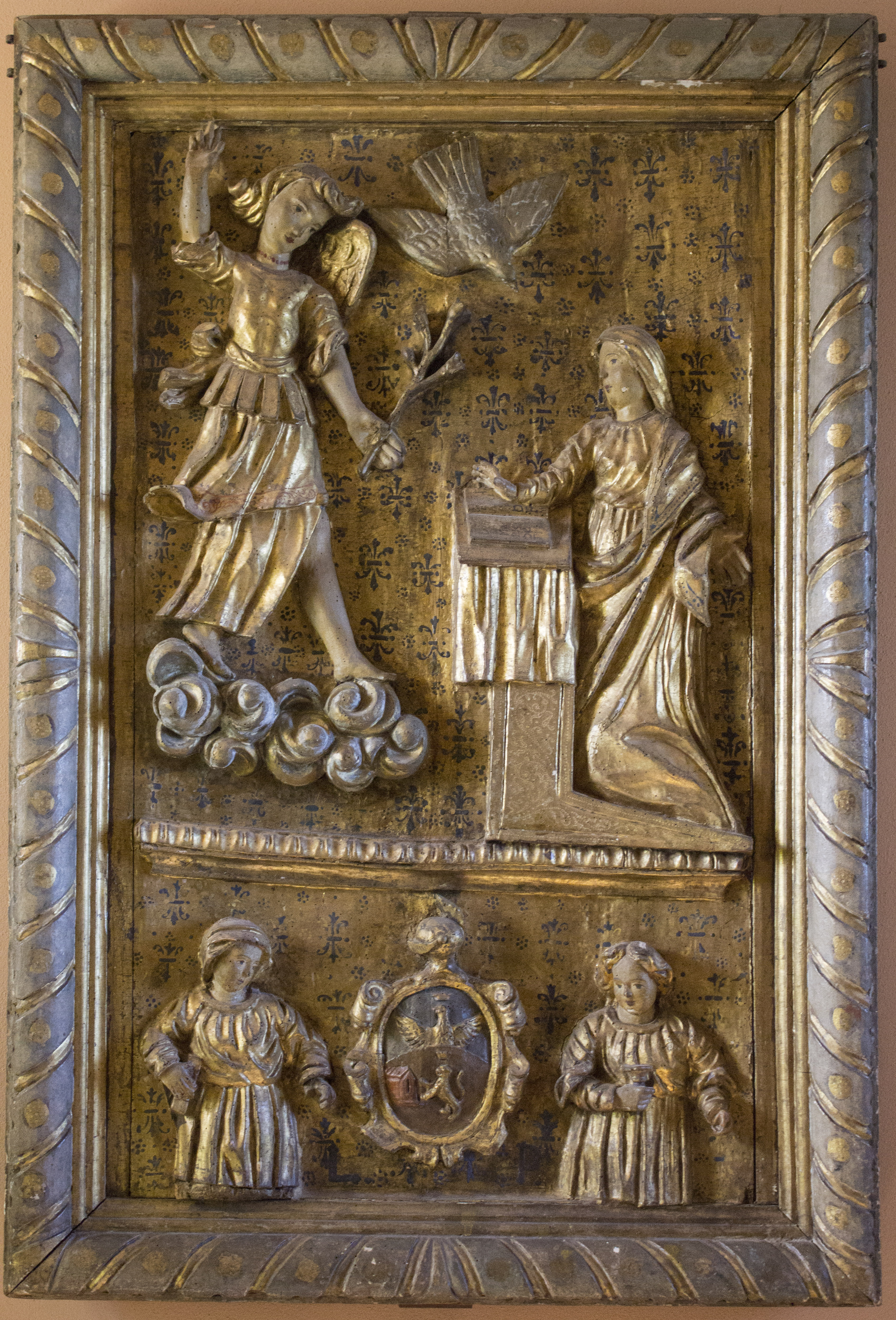 Annunciation, XVII, Monastère de l'annonciade, Menton, PACA, France